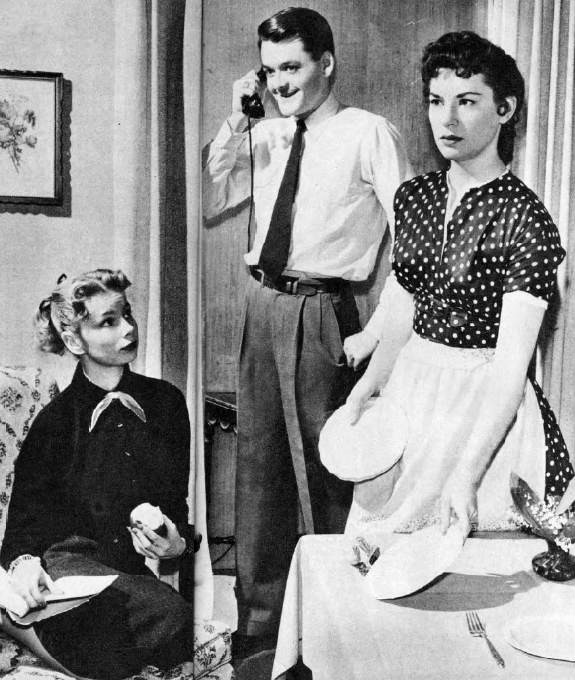 A scene from the daytime drama The Brighter Day. Three of Reverend Dennis' children are shown. From left: Mary Linn Beller (Babby), Hal Holbrook (Grayling), and Lois Nettleton (Patsy). Grayling was in charge of the house hold while his father was in Chicago with another of his daughters, Althea.